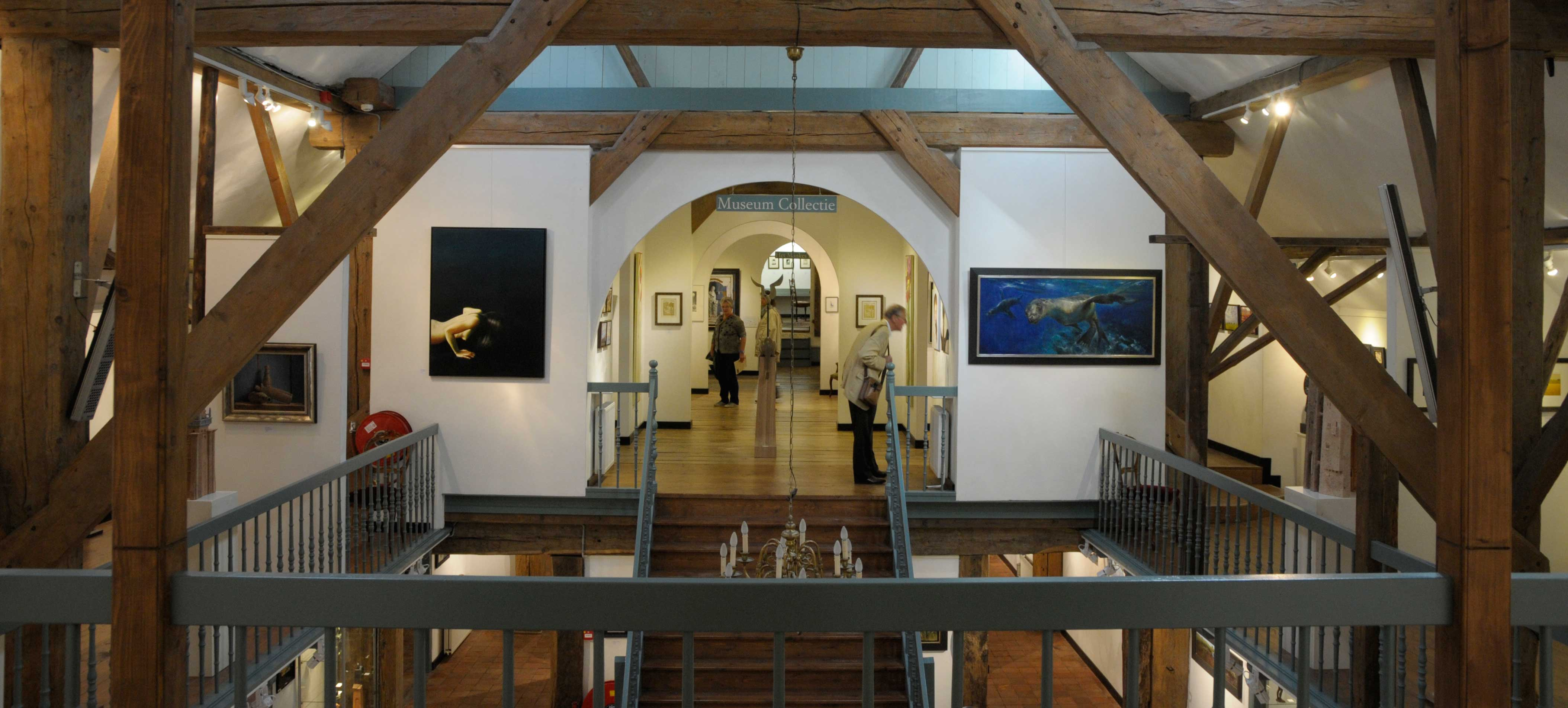 Museum